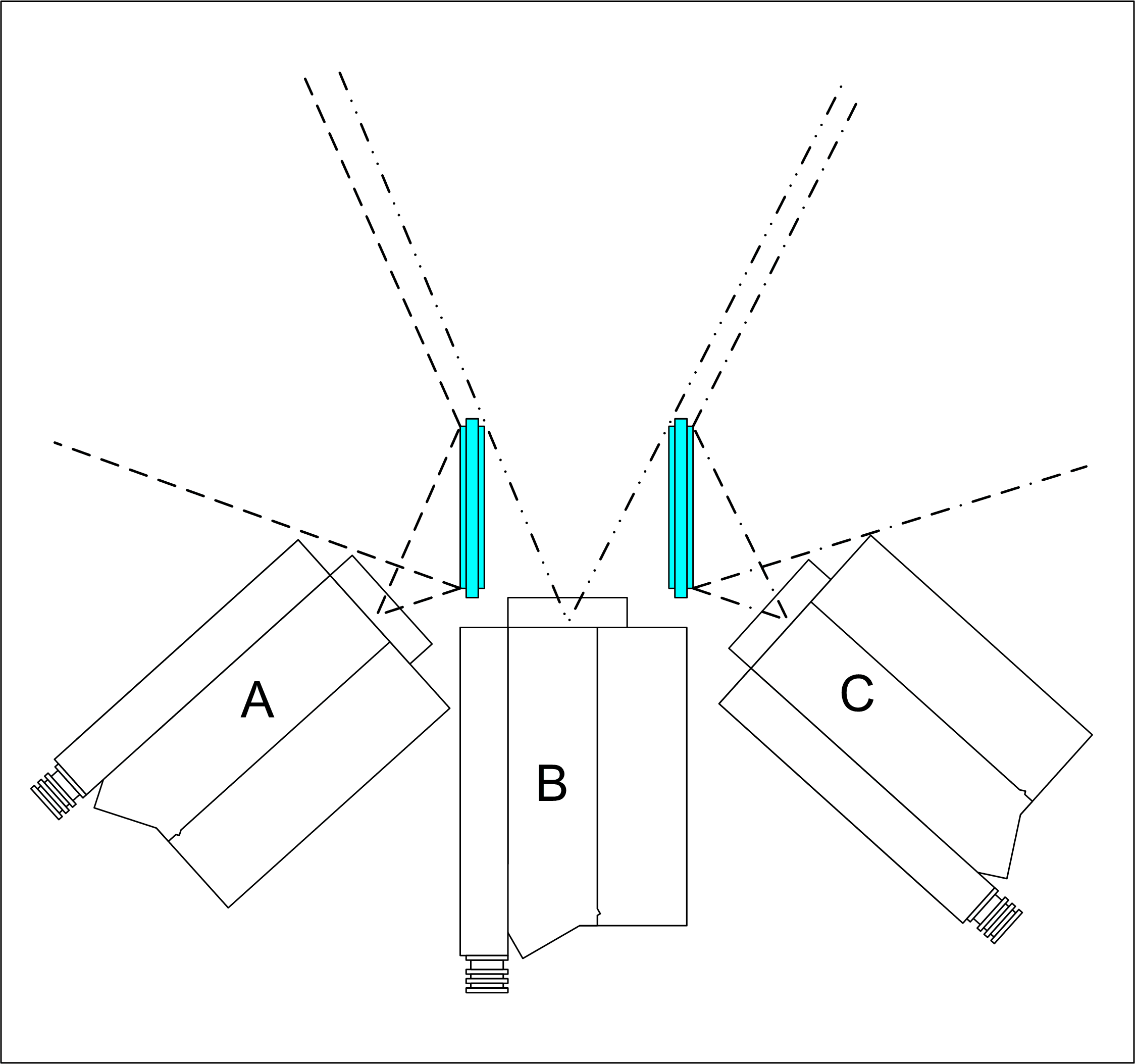 §Summary A diagram showing Cinemiracle cameras. Drawn by Max Smith (myself) in visio.